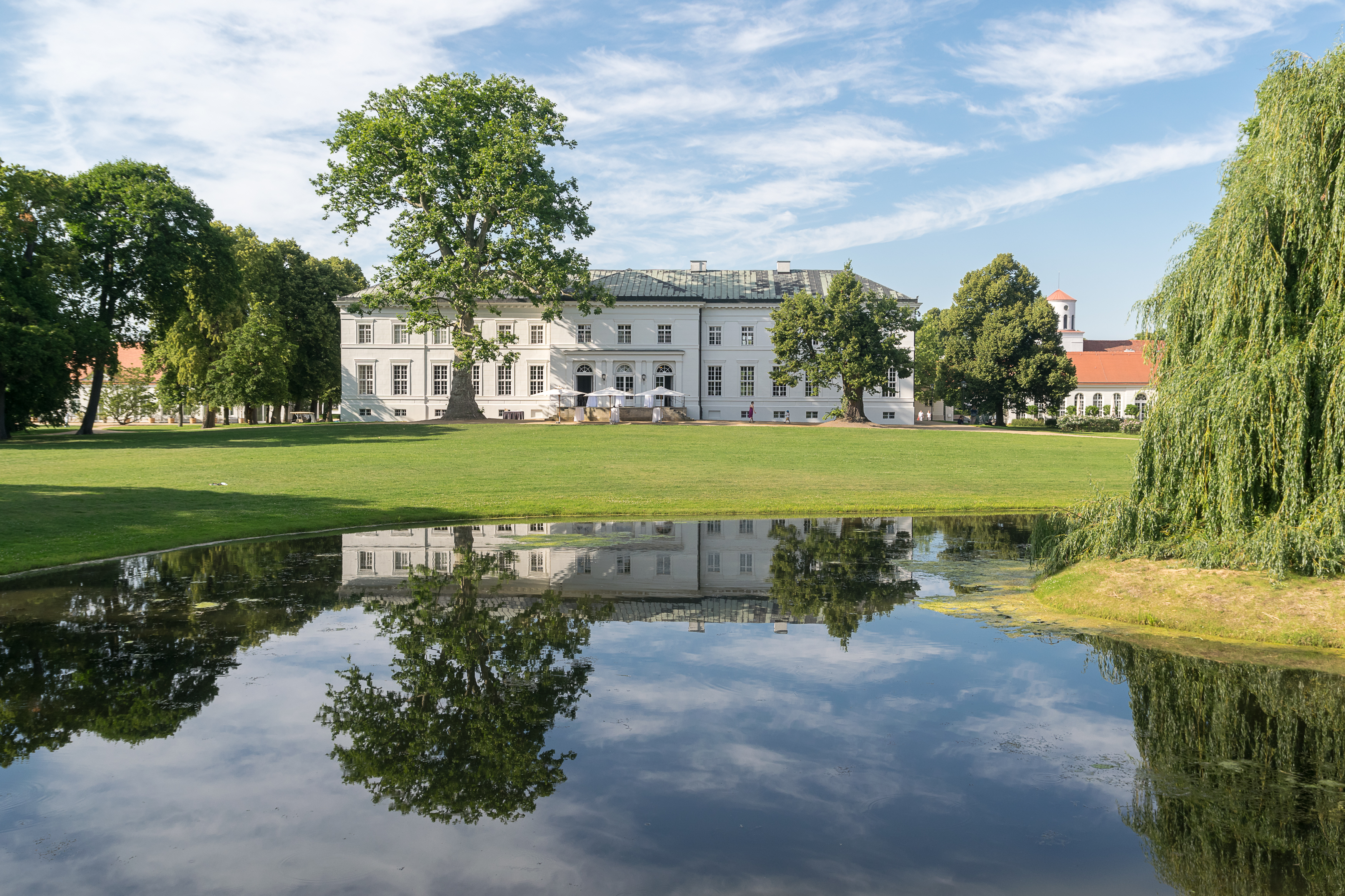 Parkside of Chateau Neuhardenberg in Brandenburg, Germany